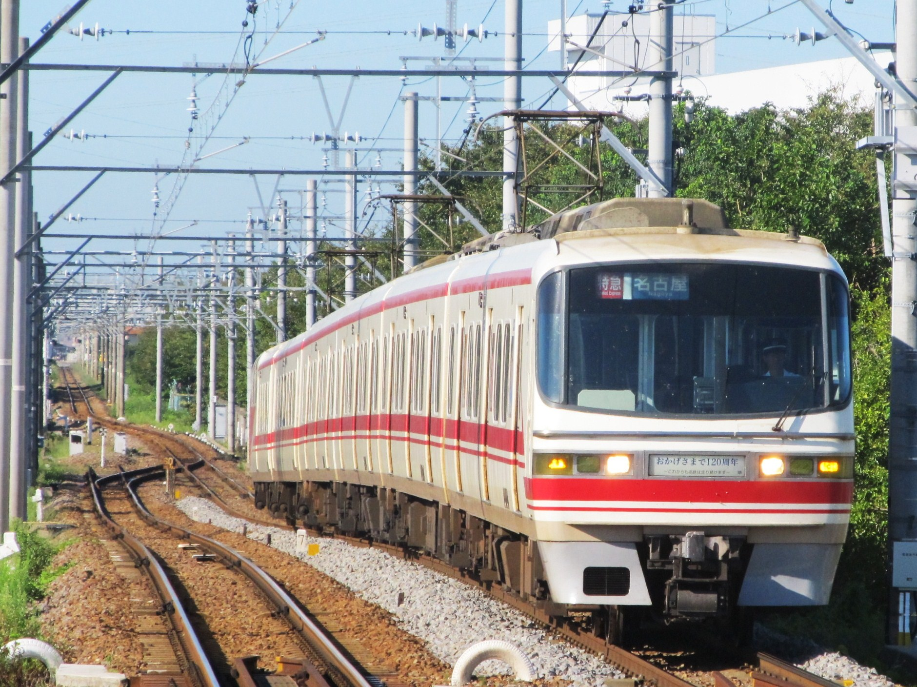 Meitetsu 1200 series and 1000 series. Limited Express bound for Meitetsu Nagoya. In Nishio Line.